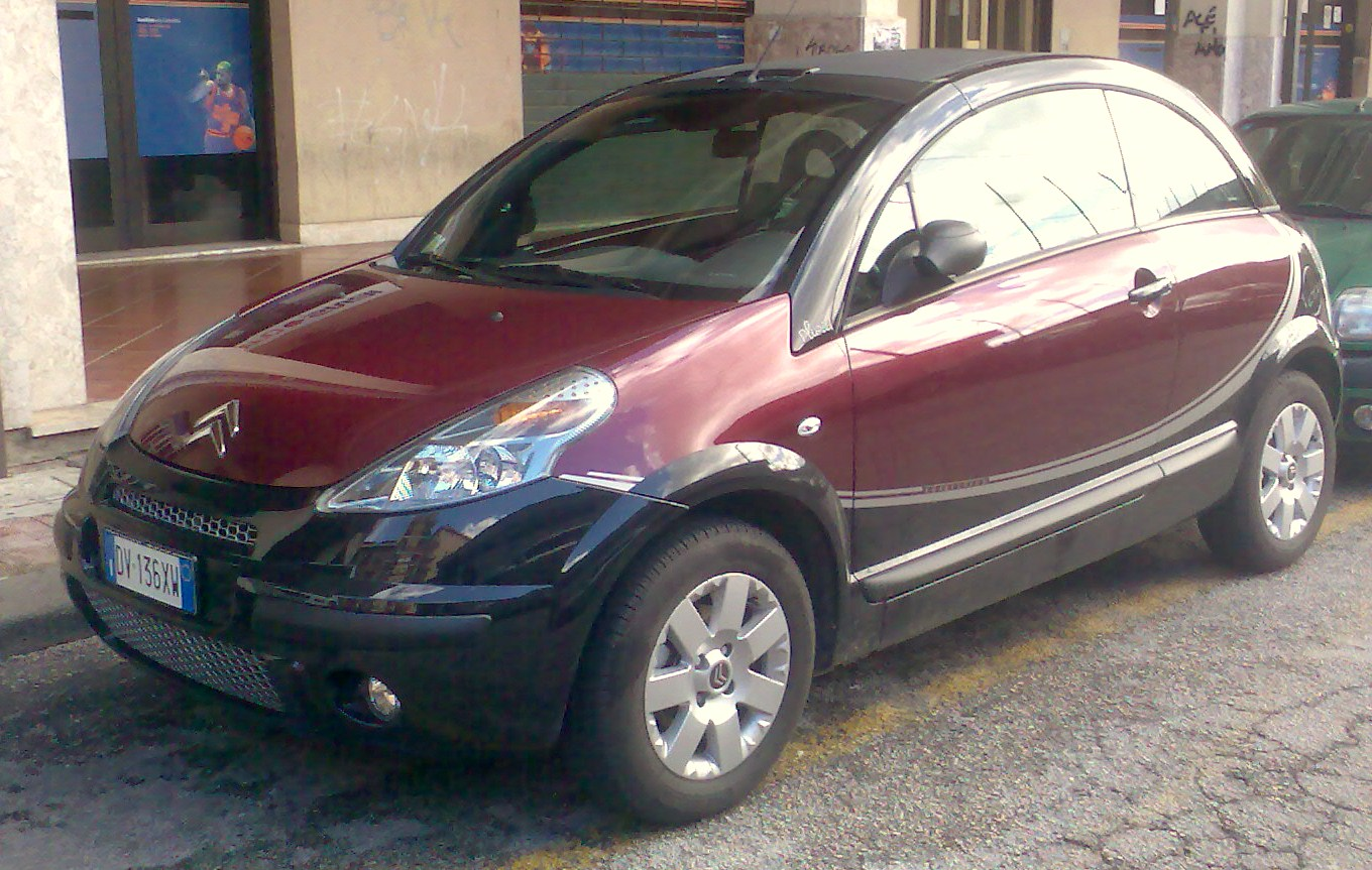 Citroen C3 Pluriel Charleston